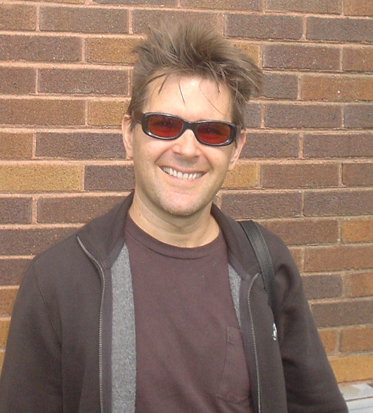 Photo by Mark Frauenfelder